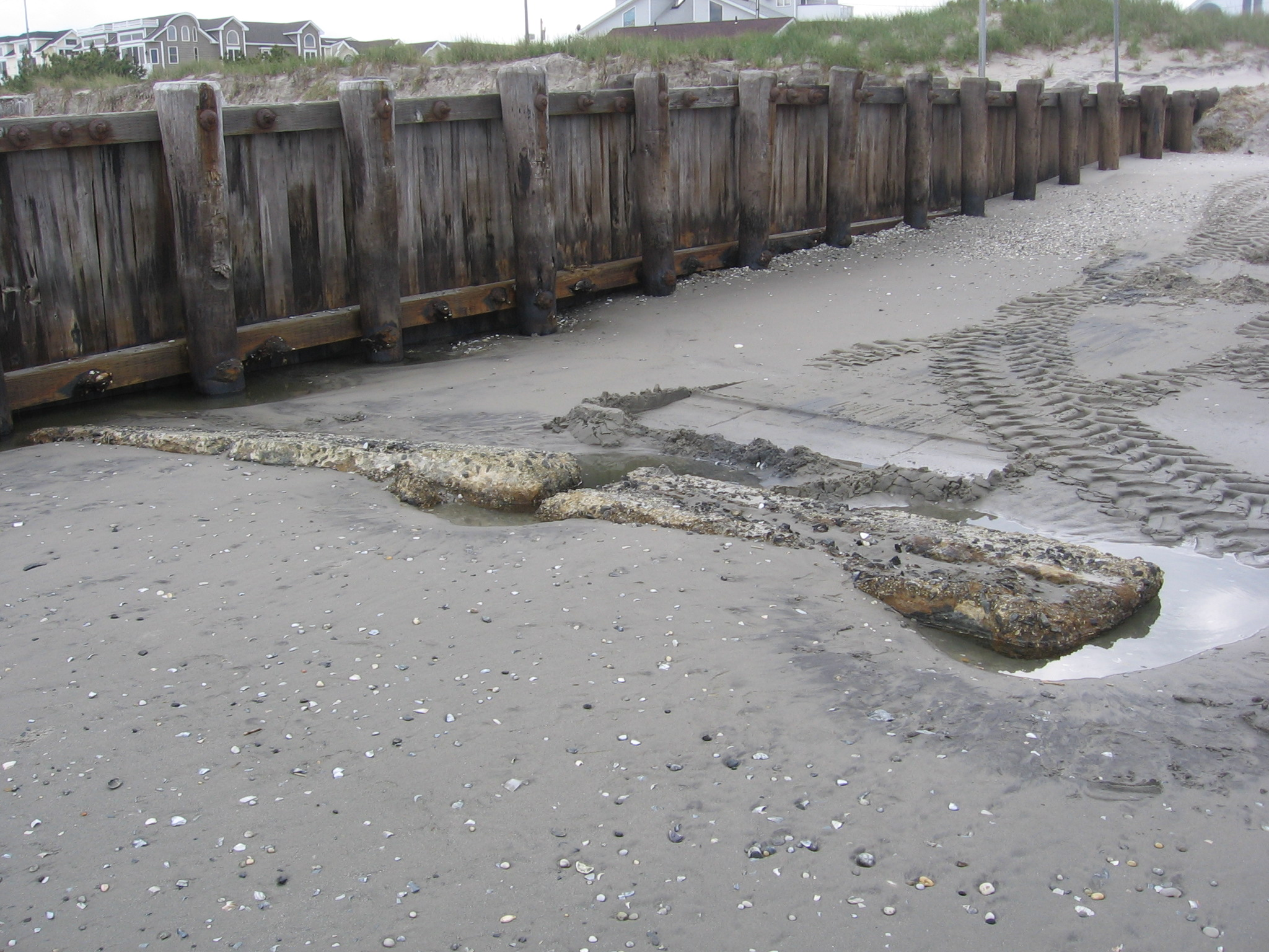 Part of the original foundation of Ludlam's Beach Lighthouse on the 31st Street beach in Sea Isle, NJ. The tracks are from a bulldozer that was used to remove a large tire earlier that day.